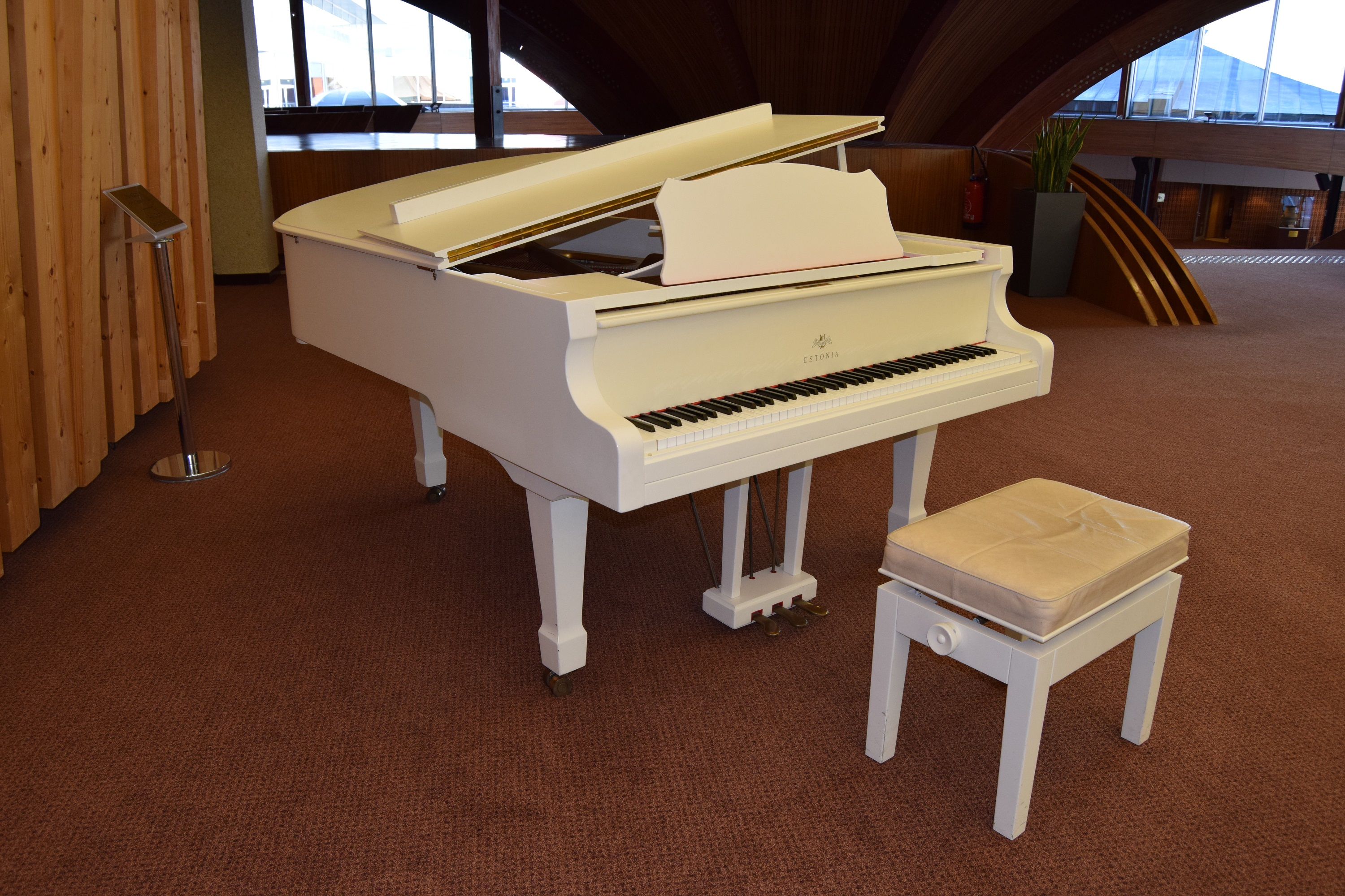 Estonia klaveri Euroopa palees